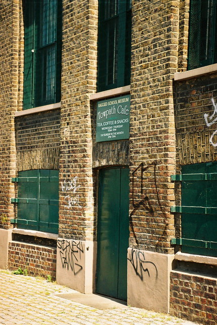 Ragged School Museum. Rare surviving canal-side warehouses in Copperfield Road, once used for one of Dr Barnado's ragged schools.